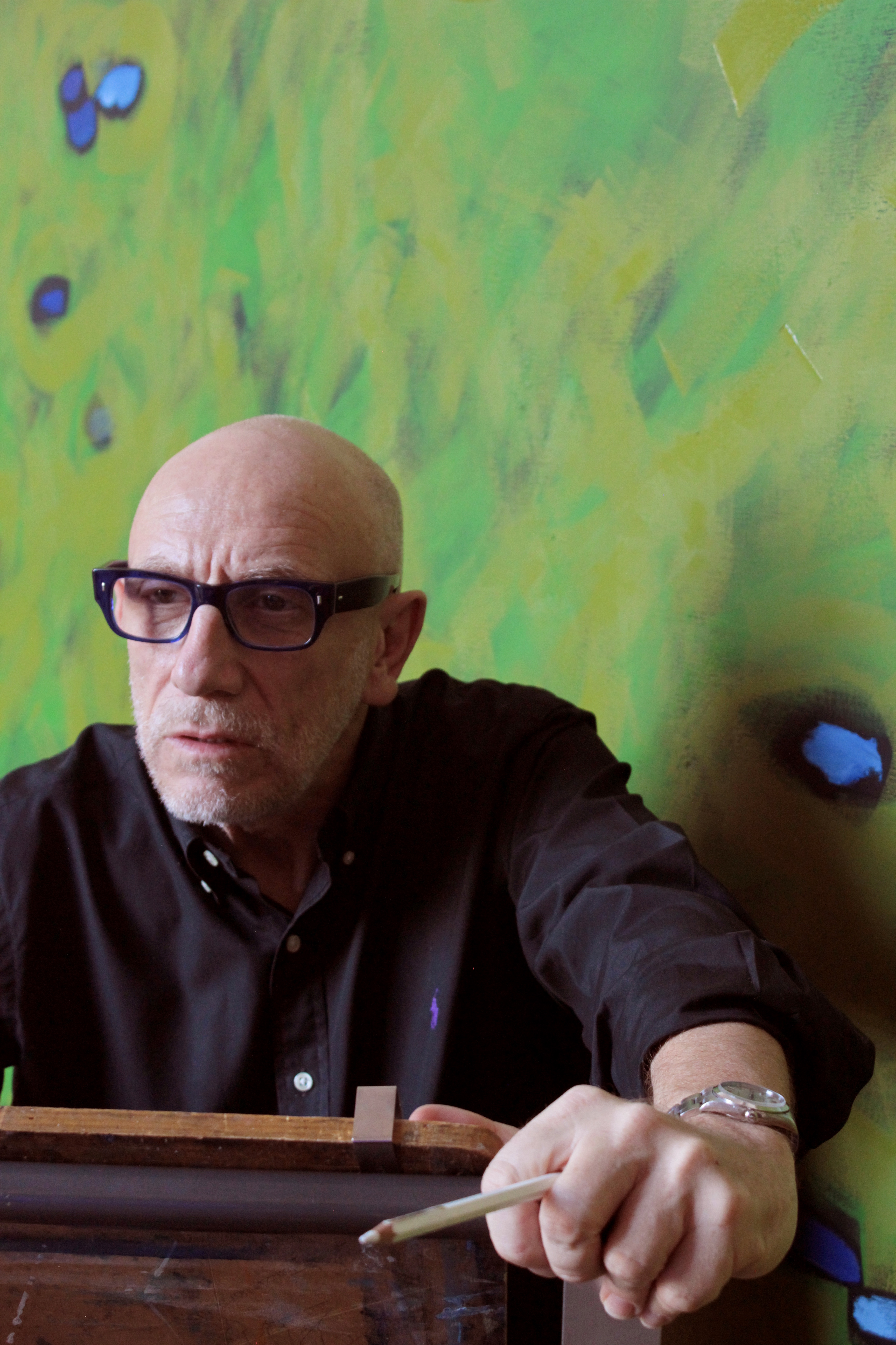 Architectural and stained glass artist Brian Clarke drawing in his studio In front of an oil painting.